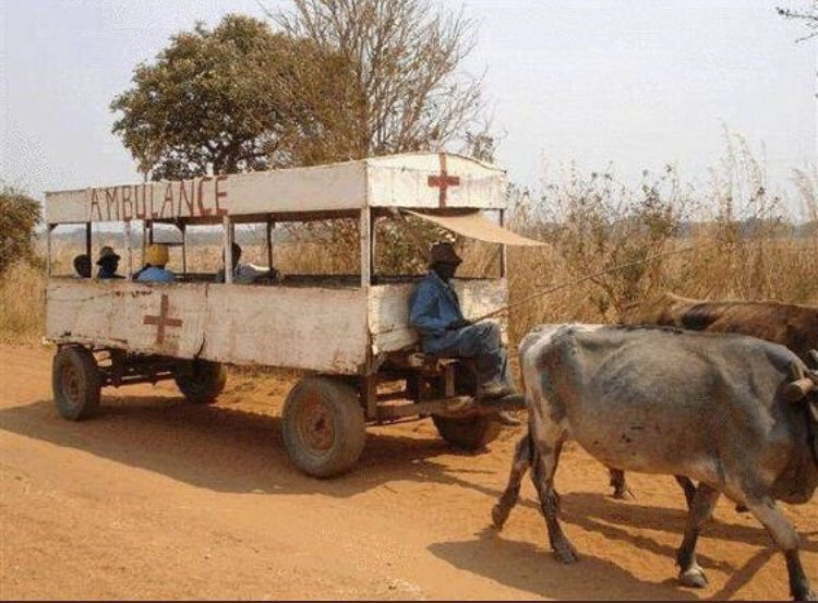 This is an image of "African people at work" from Kenya